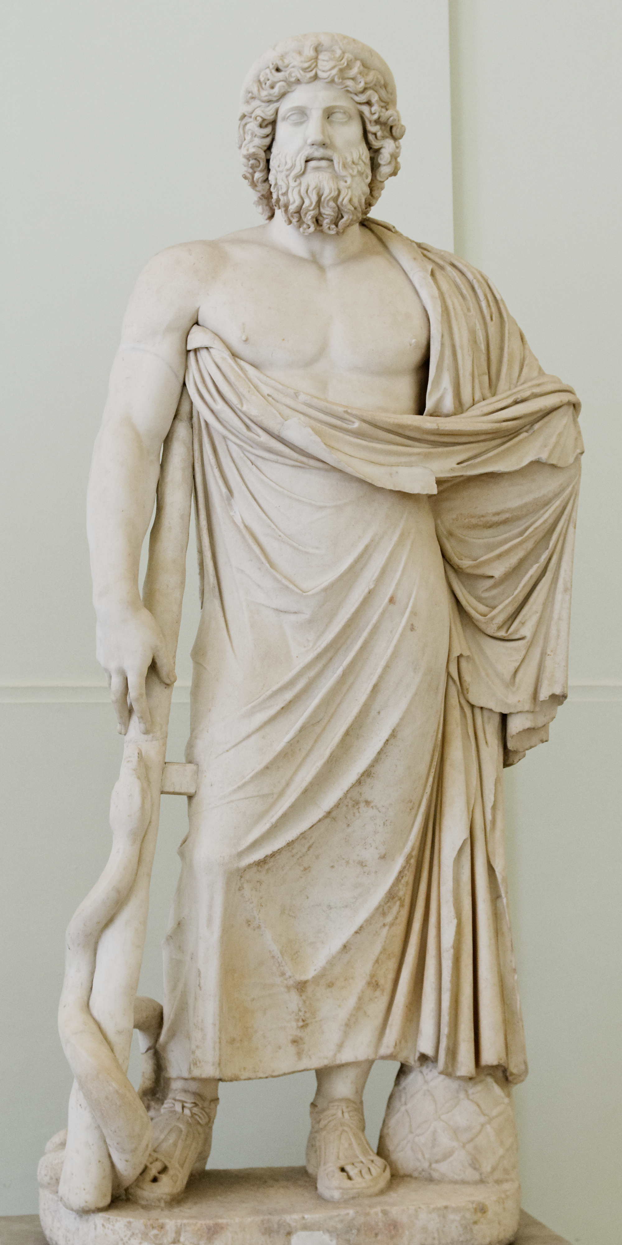 Asclepios of the Giustini type. Reelaboration of the Imperial era after a Greek original of the Classical period.